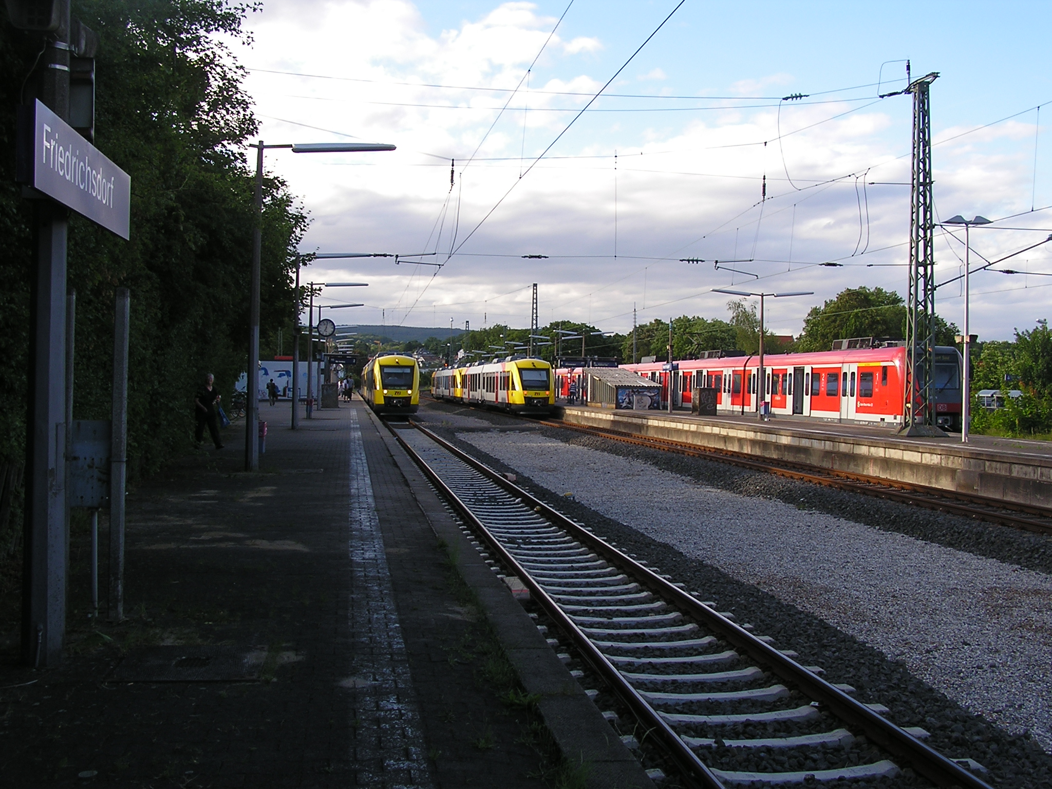 Station Friedrichsdorf (Taunus): S-Bahn (Class 423, track 5) and train meeting of the Taunusbahn (LINT 41, tracks 4 and 2)